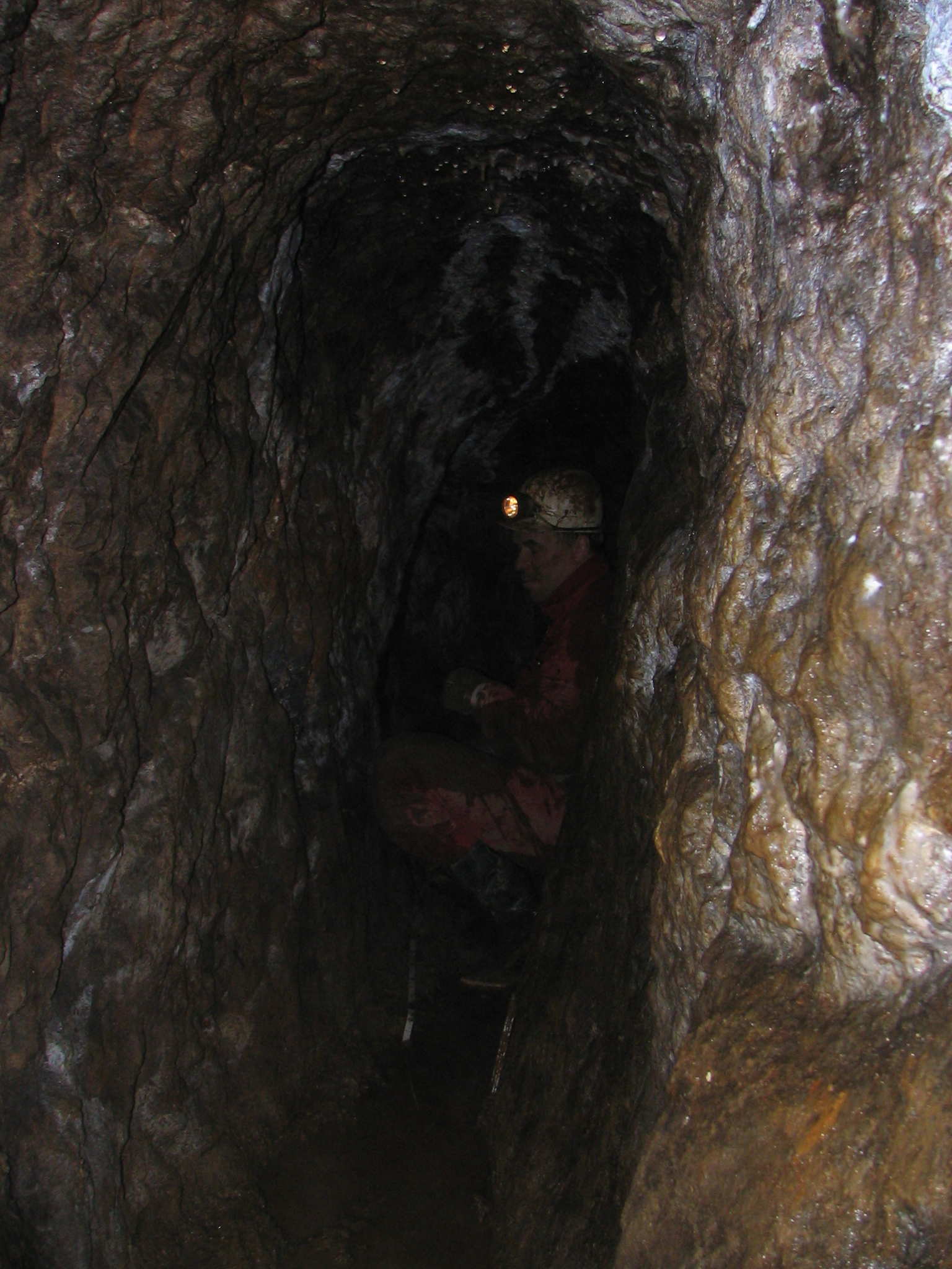 Gallery of a medieval mine dating from the 12th or 13th century. The mine produced silver and lead as by-product. Gallery being possibly main mine draining (Erbstollen). Location: Southern Black Forest, Germany.